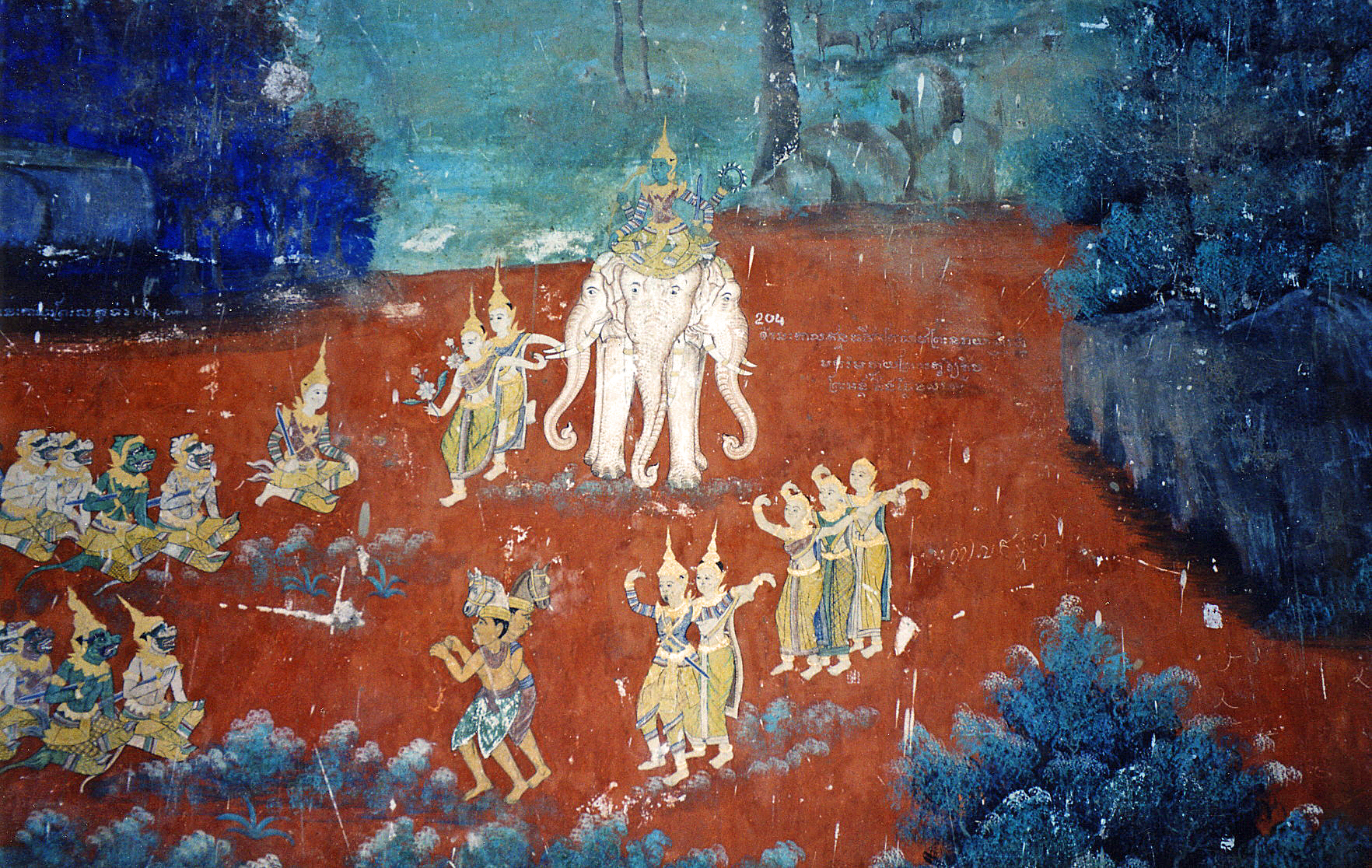 Indra on his mount Airavarta. He is accompanied by dancers.